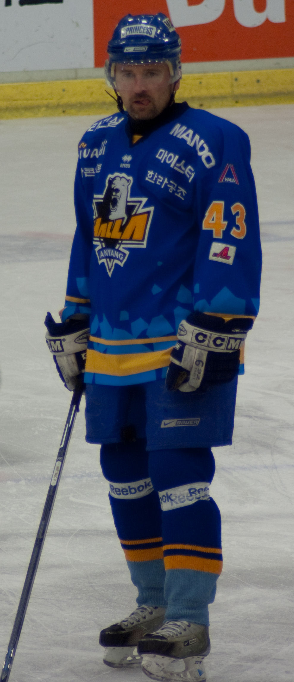 Patrik Martinec wearing the home jersey